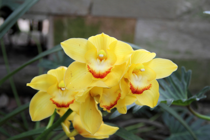 I am from China, but some of my families lives in Nepal or North India. My height is about 25~80 cm and my flower's diameter is about 6 cm. For people make us marrage with other orchids, so some of my families get the characteristic of others. We may have some different features but we are sure the same species. Through this way, we may have much more beautiful flowers, and you may have a chance to enjoy them during Mar to May. May you be happy for meeting me.